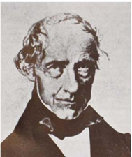 Jakob Ganz (1791–1867), Swiss pietist preacher and author